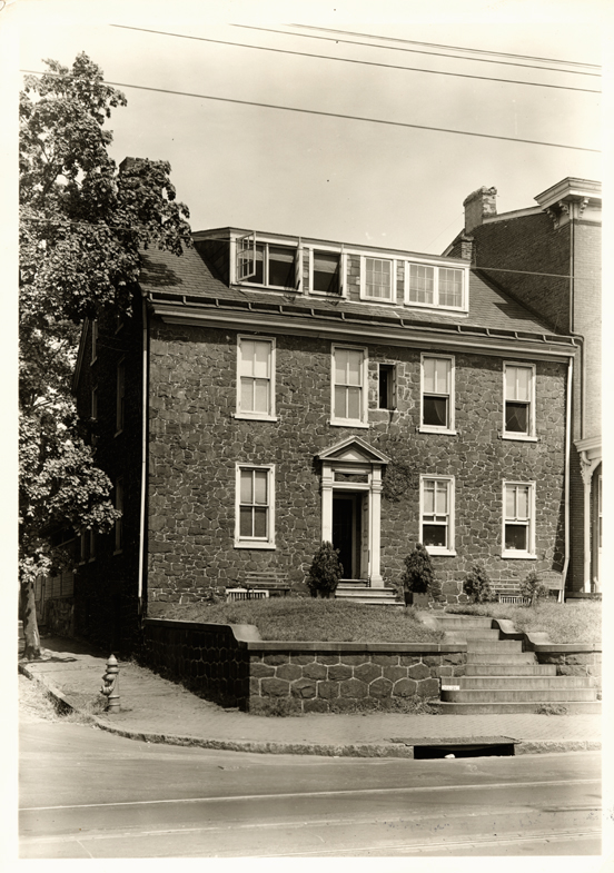 William Lea House"front elevation, 1901 N. Market St." Wilmington, DE